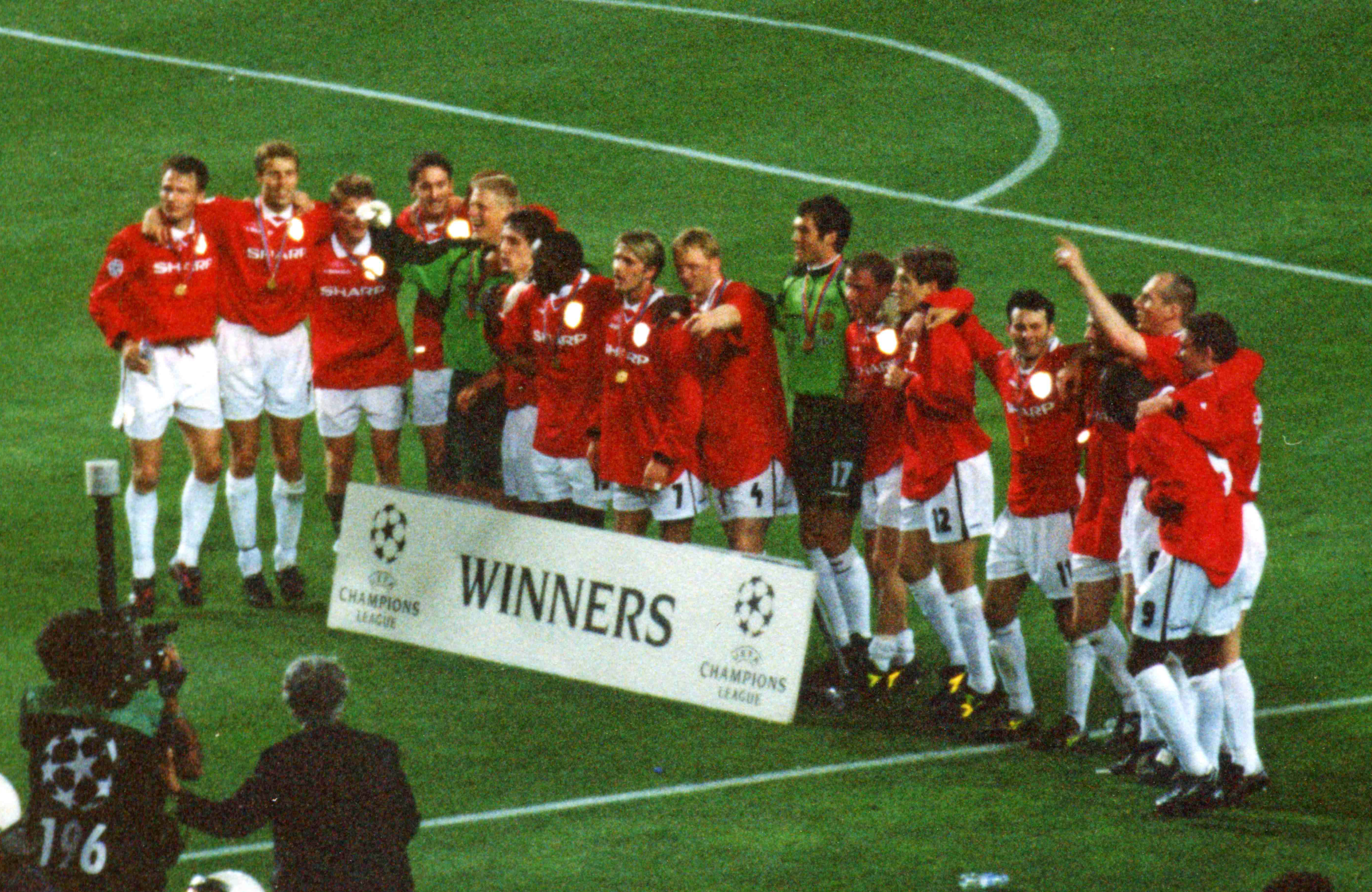 Manchester United's players celebrate winning the 1998–99 UEFA Champions League after their victory over Bayern Munich in the 1999 UEFA Champions League Final at the Camp Nou, Barcelona, on 26 May 1999.